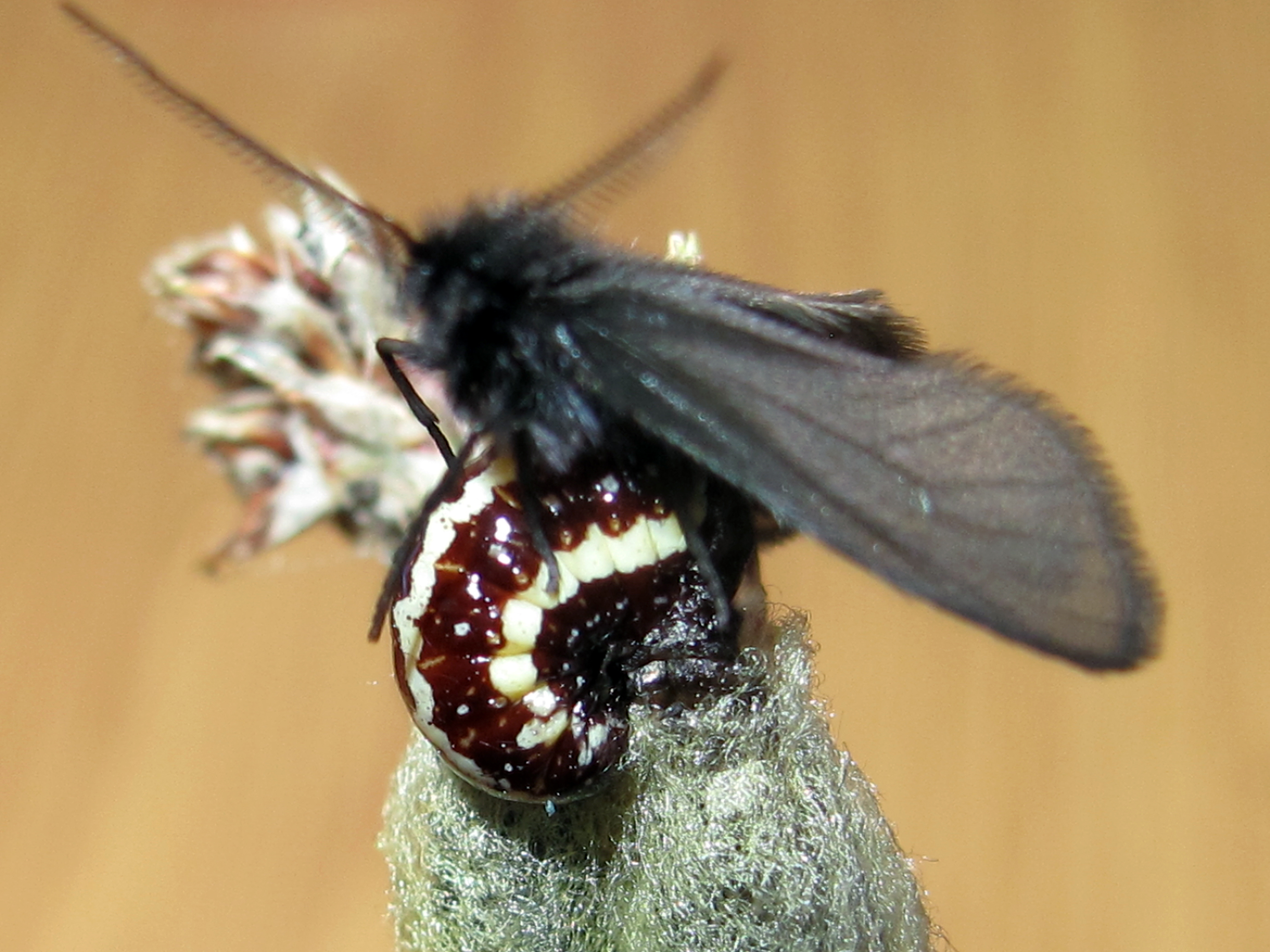 Copulation of Heterogynis zikici (female is apterous)